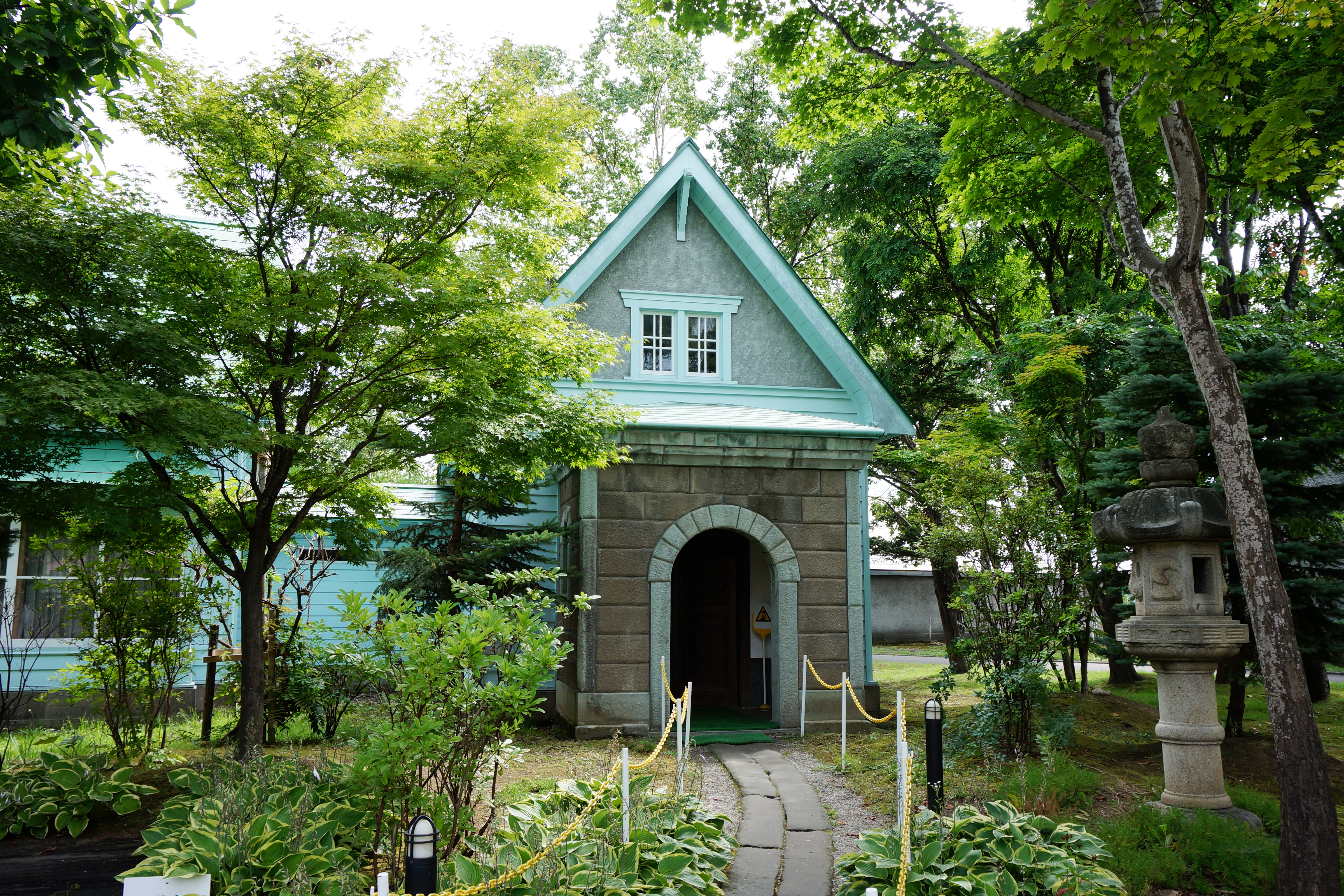 Nikka Wisky Yoichi Distillery in Yoichi, Hokkaido prefecture, Japan.